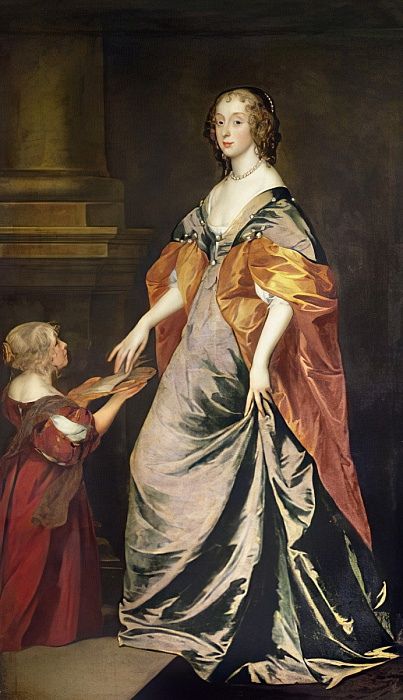 The Duchess is depicted in a romantic costume, the same as other ladies of her circle depicted by Van Dyck.